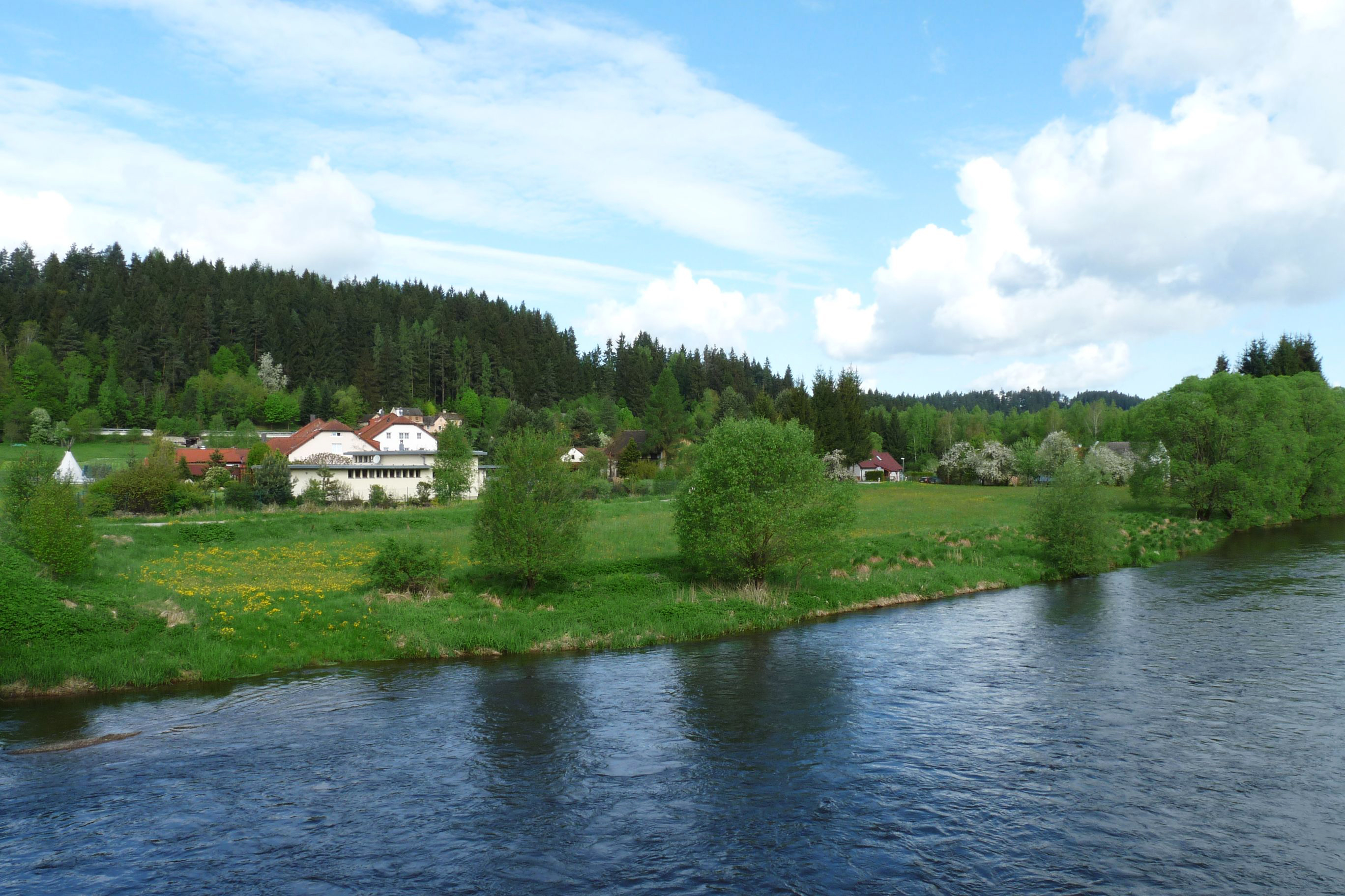 Village of Zátoňské Dvory, Český Krumlov District, South Bohemian Region, Czech Republic as seen across the Vltava River.